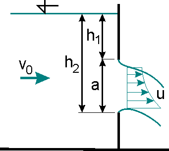 outflow from an orifice - big orifice